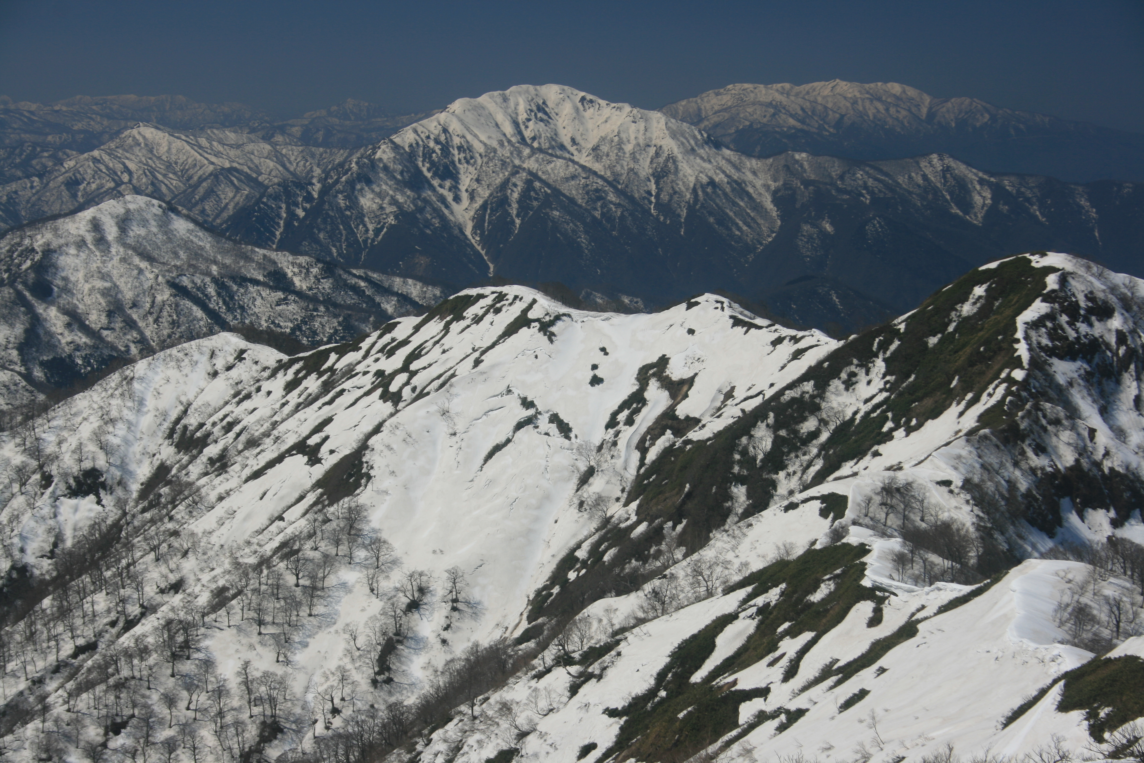 Arashimadake seen from Ojiroyama. Lookng WSW.